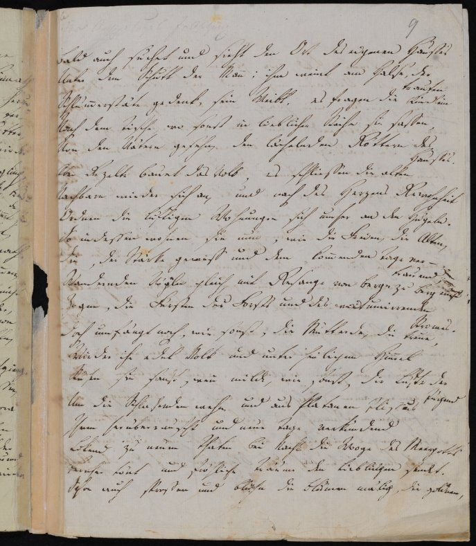 Manuscript of Friedrich Hölderlin: Der Archipelagus, page 9. From Homburg